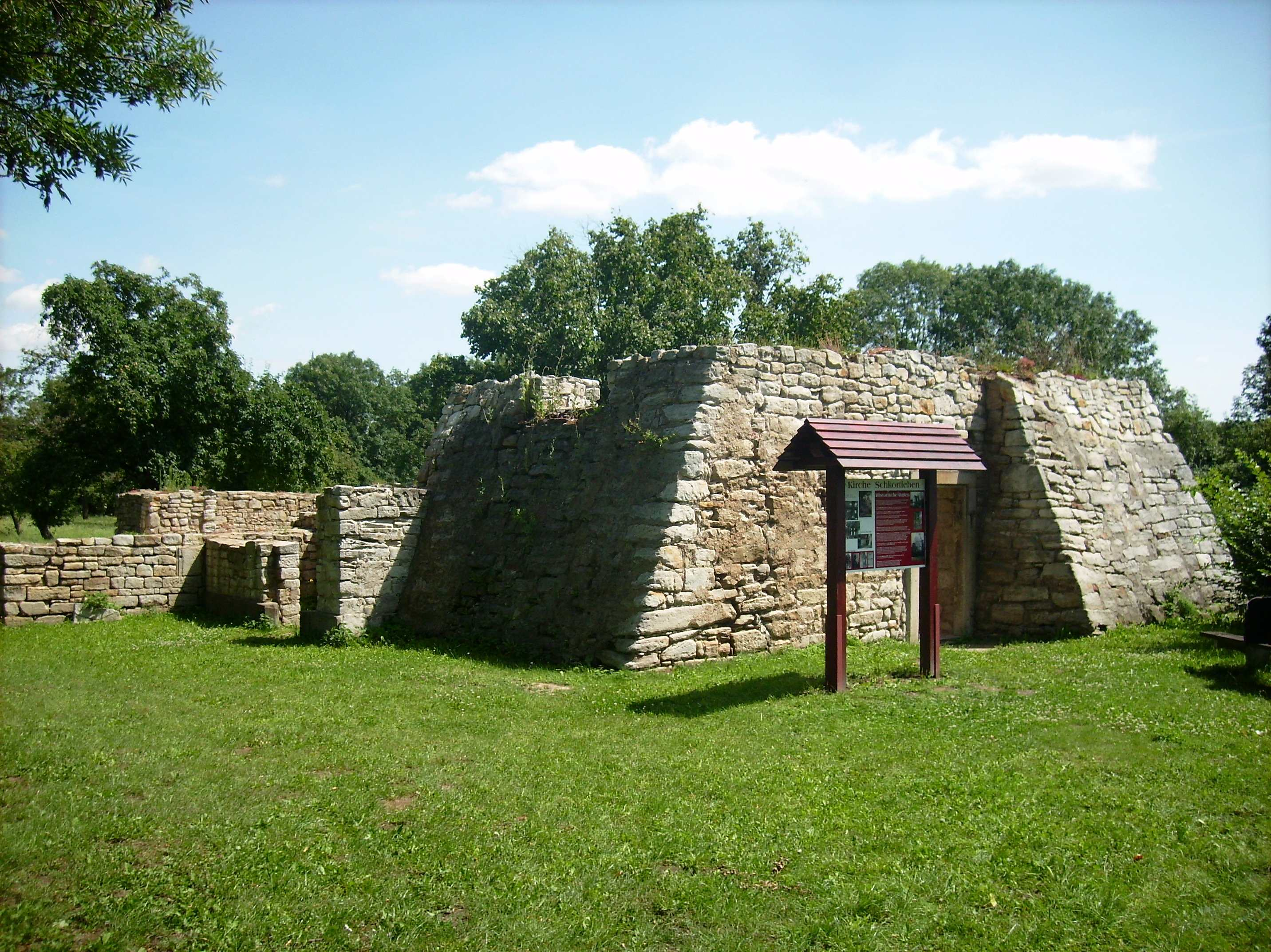 Ruins of Schkortleben church (Weissenfels, district of Burgenlandkreis, Saxony-Anhalt)